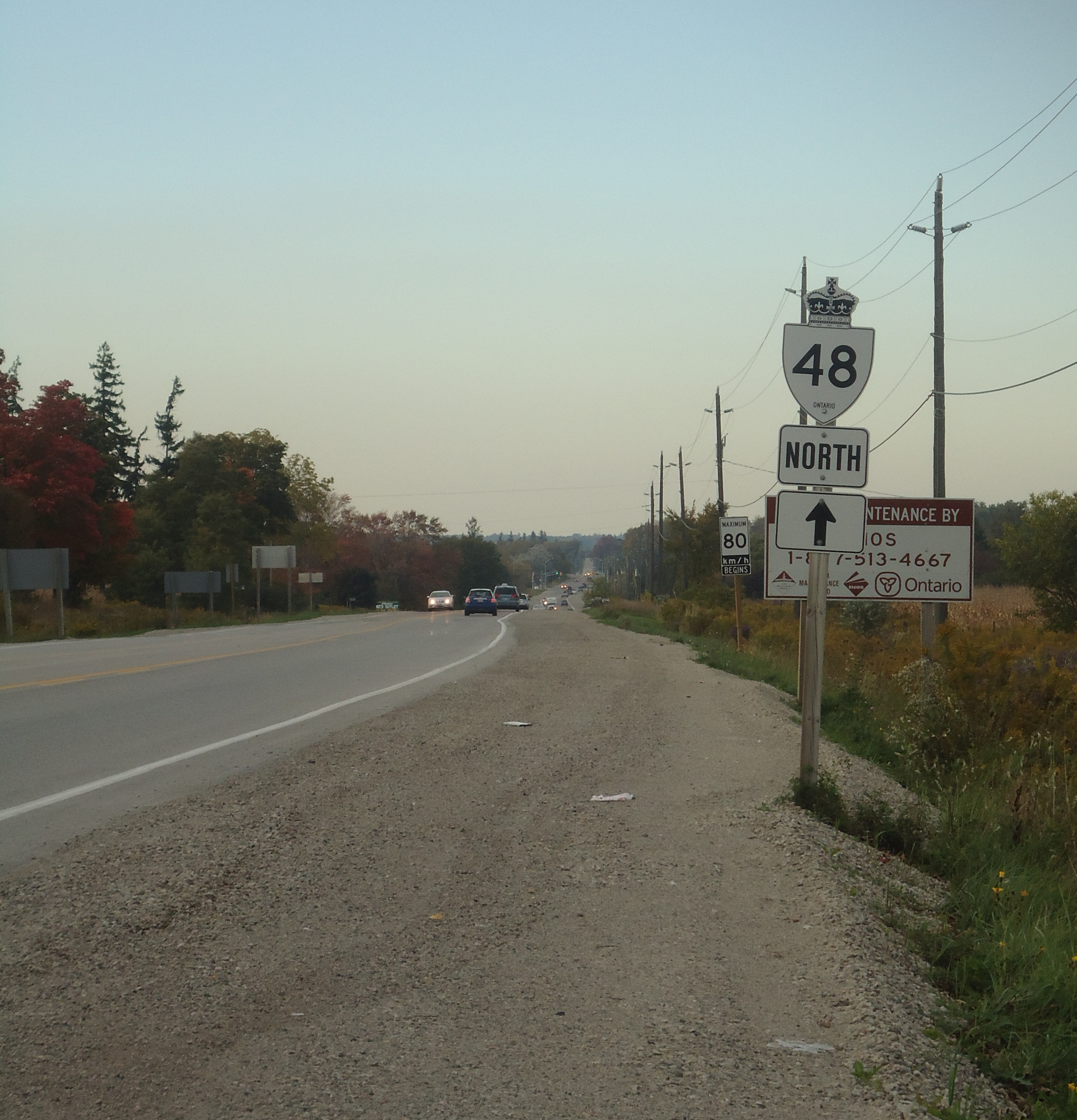 Facing north along Highway 48 at its southern terminus of Major Mackenzie Drive, on the rural urban fringe of Markham, Ontario.